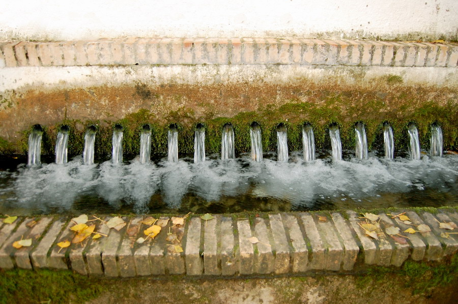 fuente Castaño